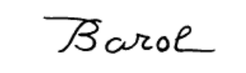 Jean Barol's signature